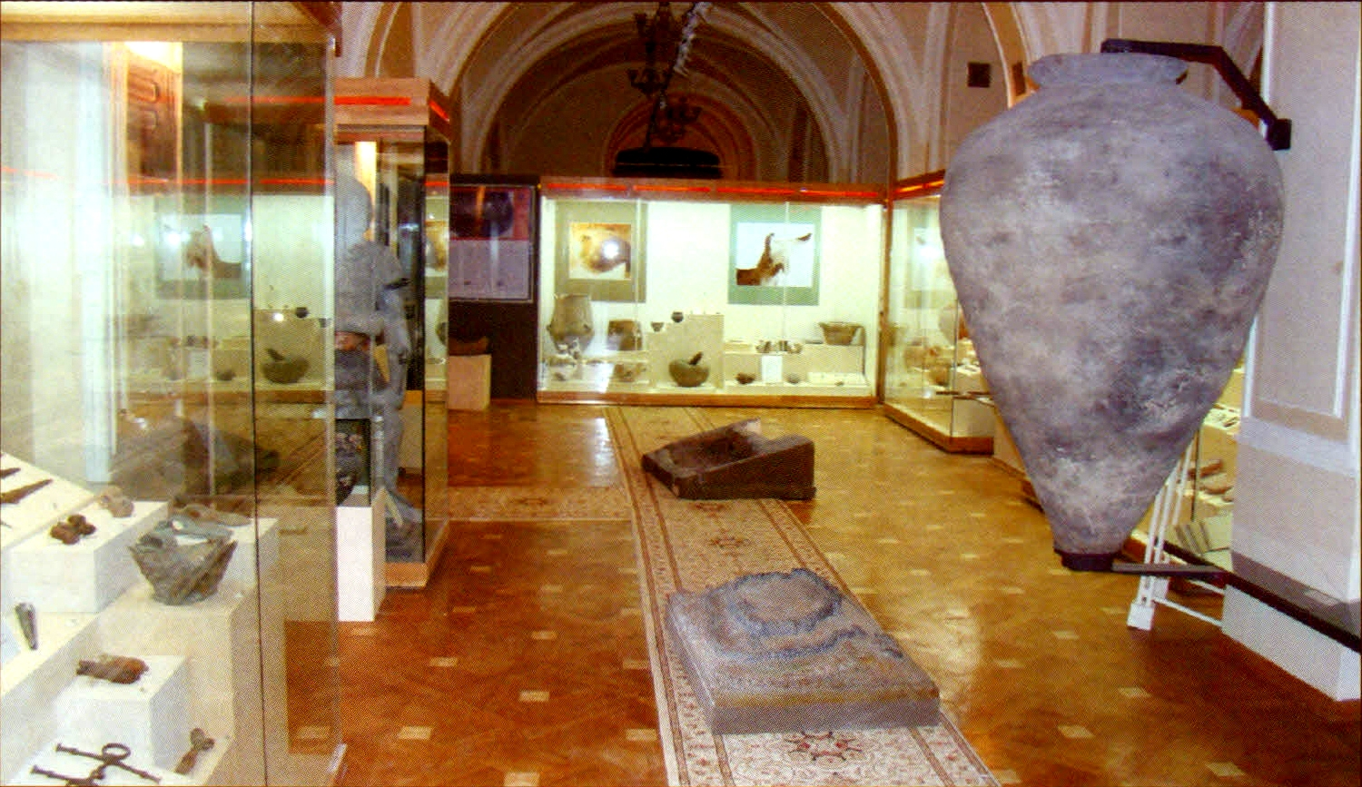 Azerbaijan History Museum, Jar-Burial Culture